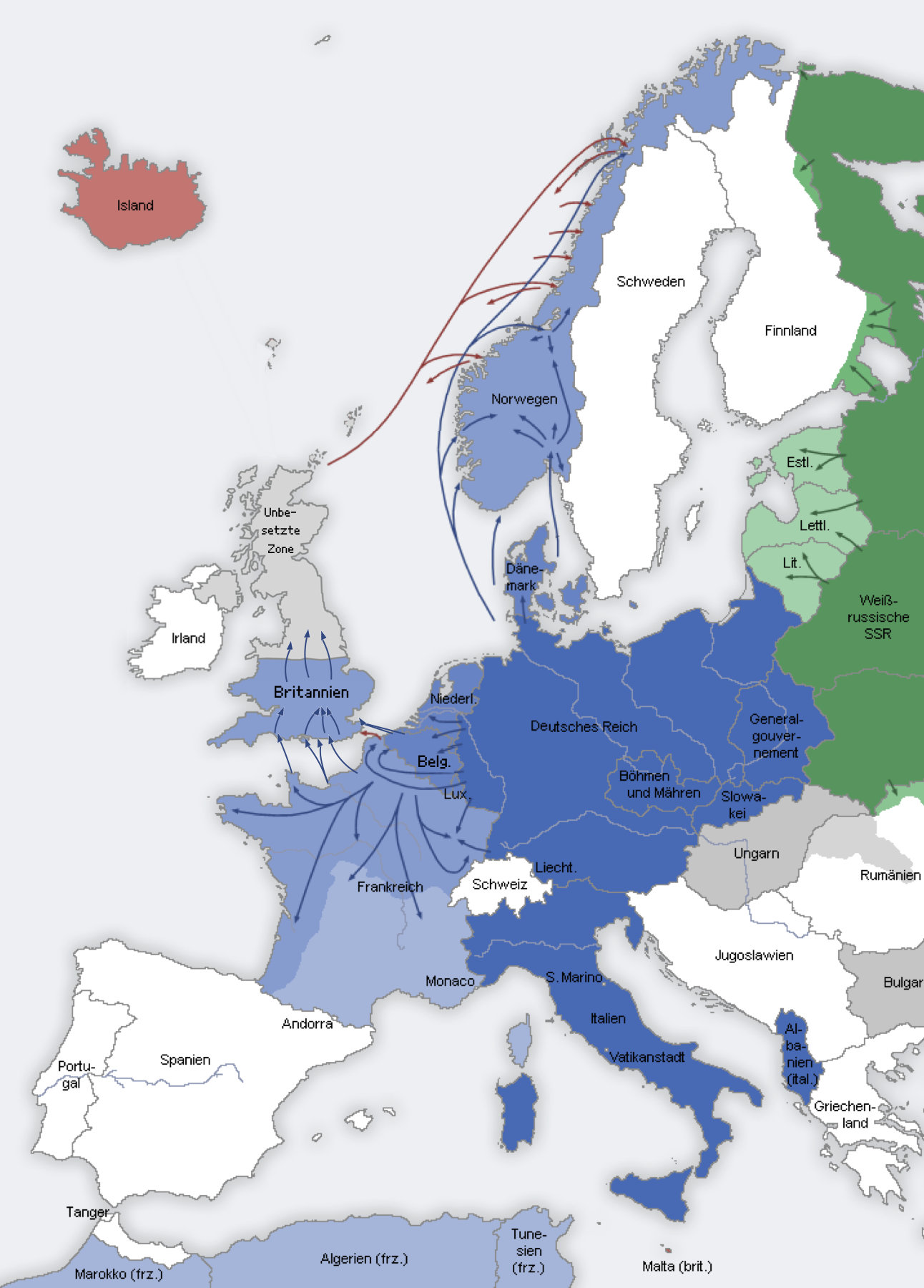 SS-GB MAP